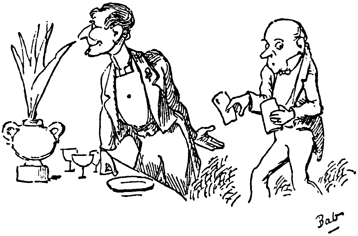 The Duke of Plaza-Toro accepting money behind his back while standing at a dinner table. Bab drawing published before 1900.